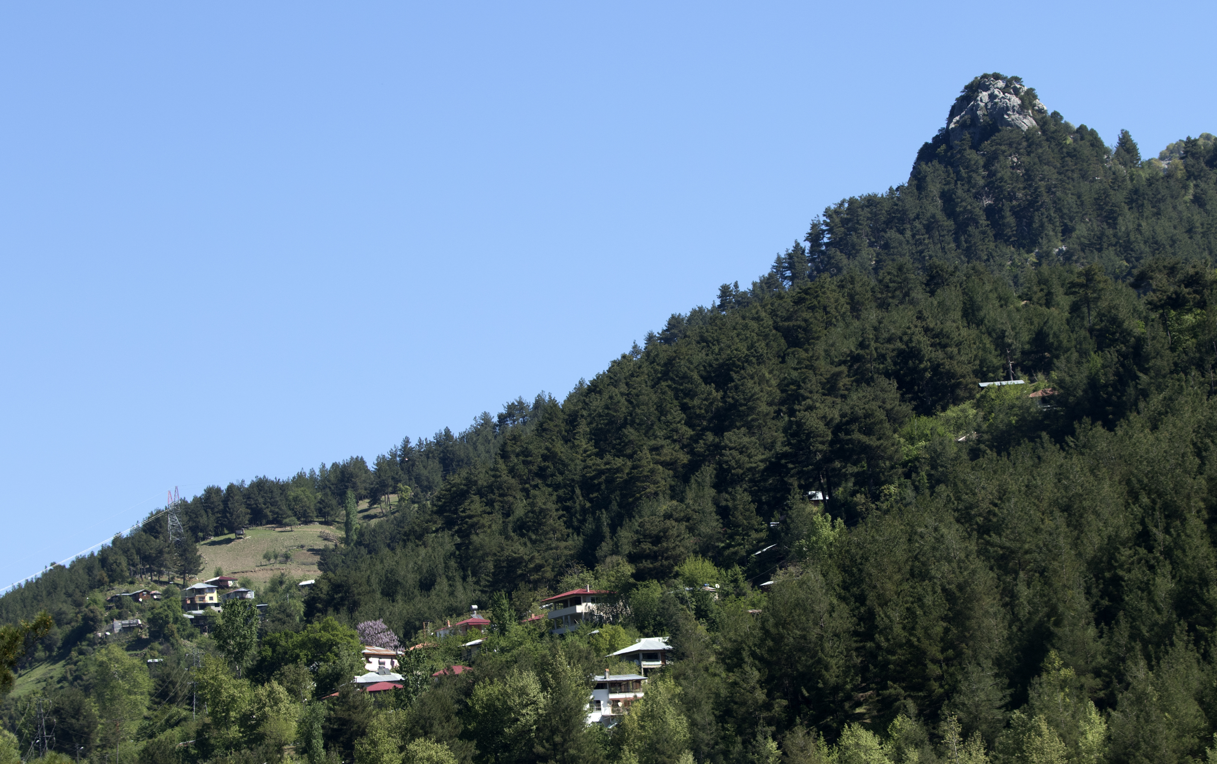 Dışbudak quarter of Çulluuşağı neighborhood of Kozan - Adana, Turkey.